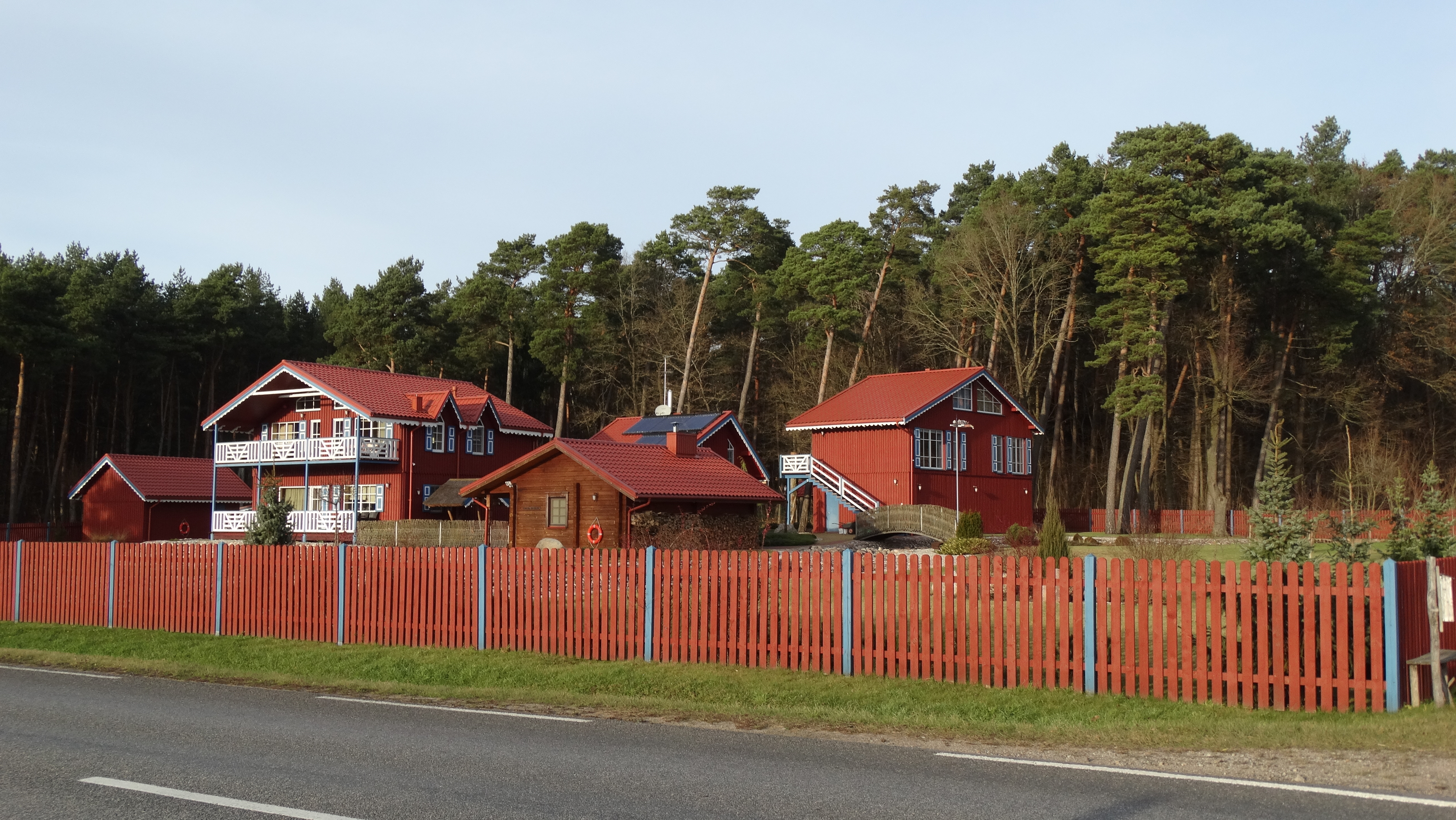 Ringovė, Kaunas district, Lithuania